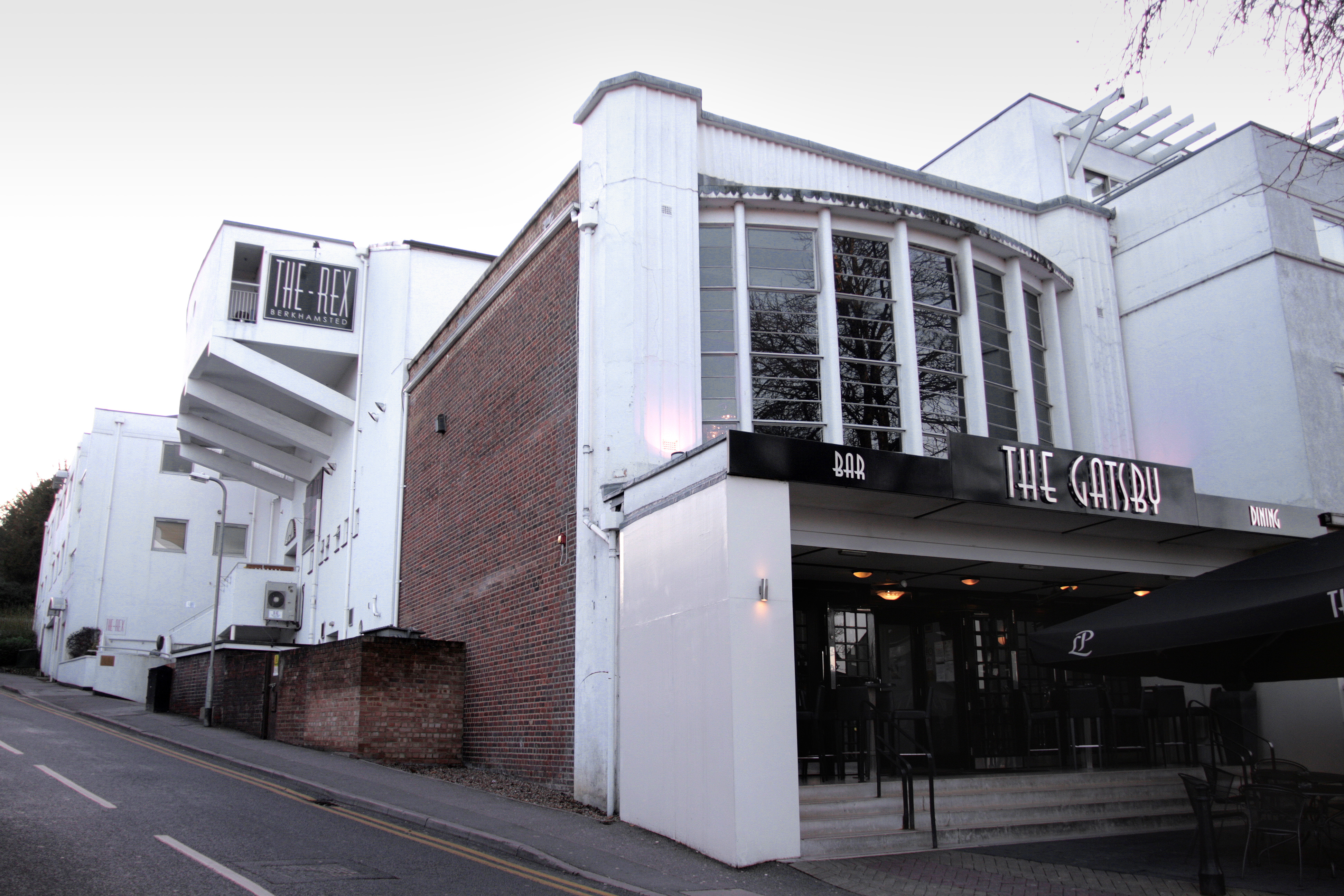 The Rex Cinema, Berkhamsted, Hertfordshire, UK; opened 1937, architect: David Nye